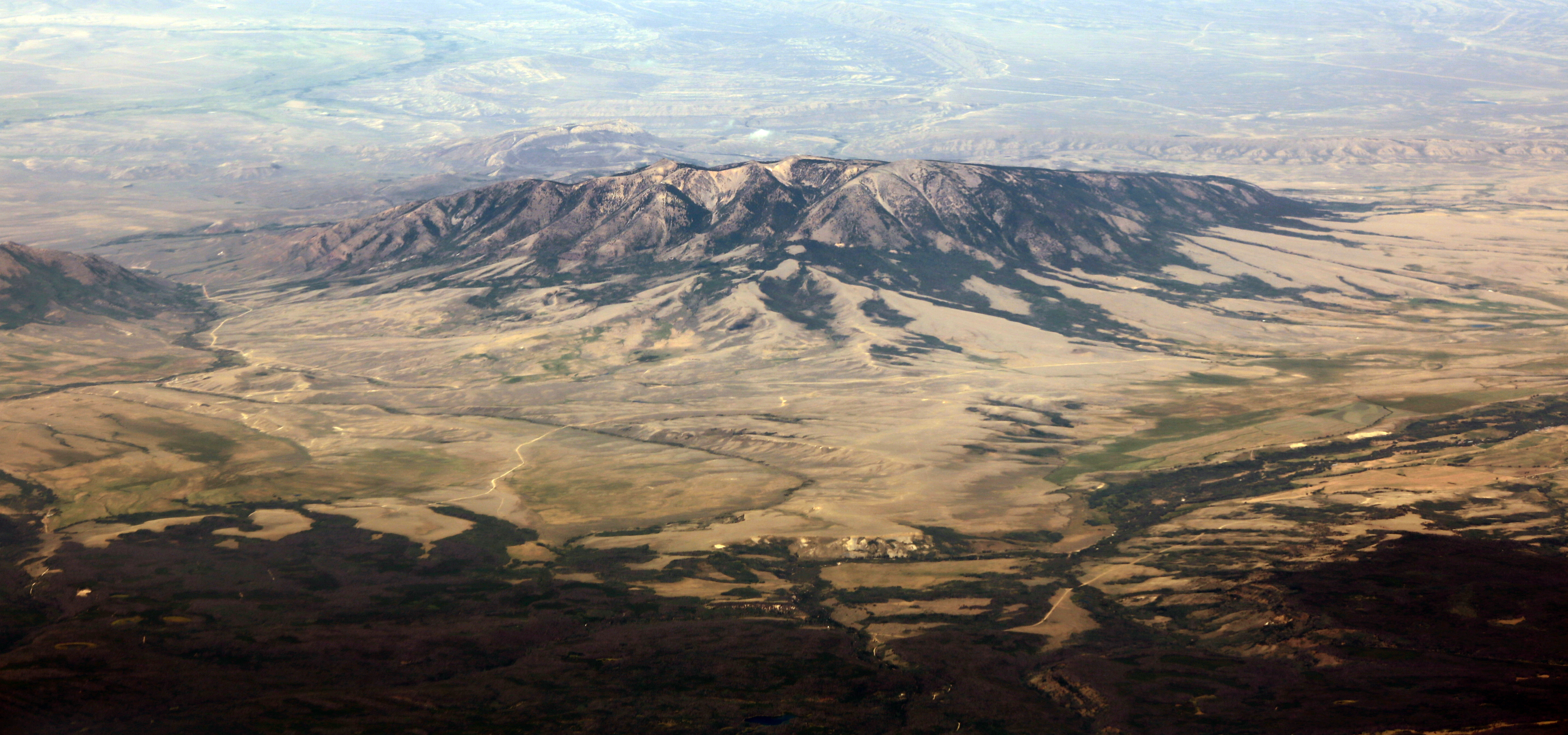 Elk Mountain (Wyoming), and the smaller Coad Mountain, southwest of it. View here it to the northwest. Location: [1]; south of I-80, between Laramie & Rawlins.